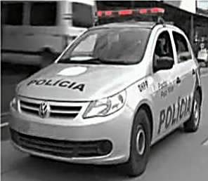 Pernambuco State police car